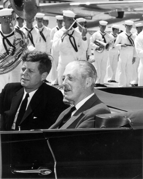 Persistent URL: Local call number: DM6184 Title: John F. Kennedy and British Prime Minister Harold McMillan at Key West Naval Air Station Date: March 26, 1961 Physical descrip: 1 photoprint - b&w - 10 x 8 in. Series Title: Repository: 500 S. Bronough St., Tallahassee, FL, 32399-0250 USA, Contact: 850.245.6700